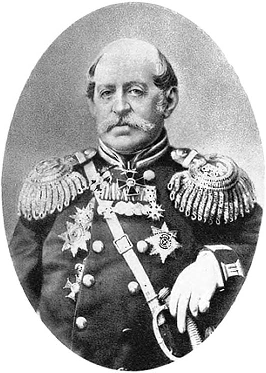 Frderiks, Boris Andreyevich